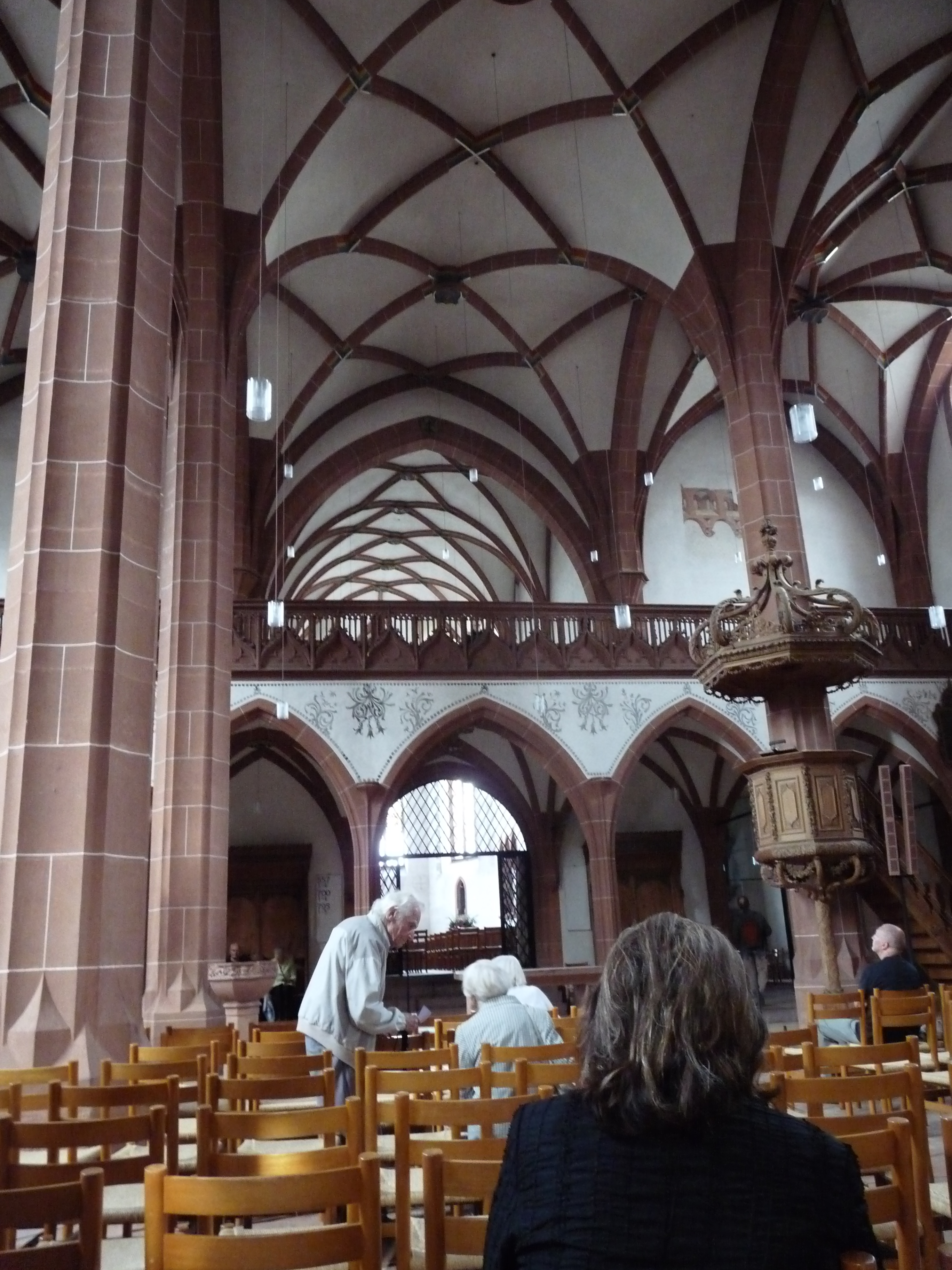 Leonhardskirche Basel interior